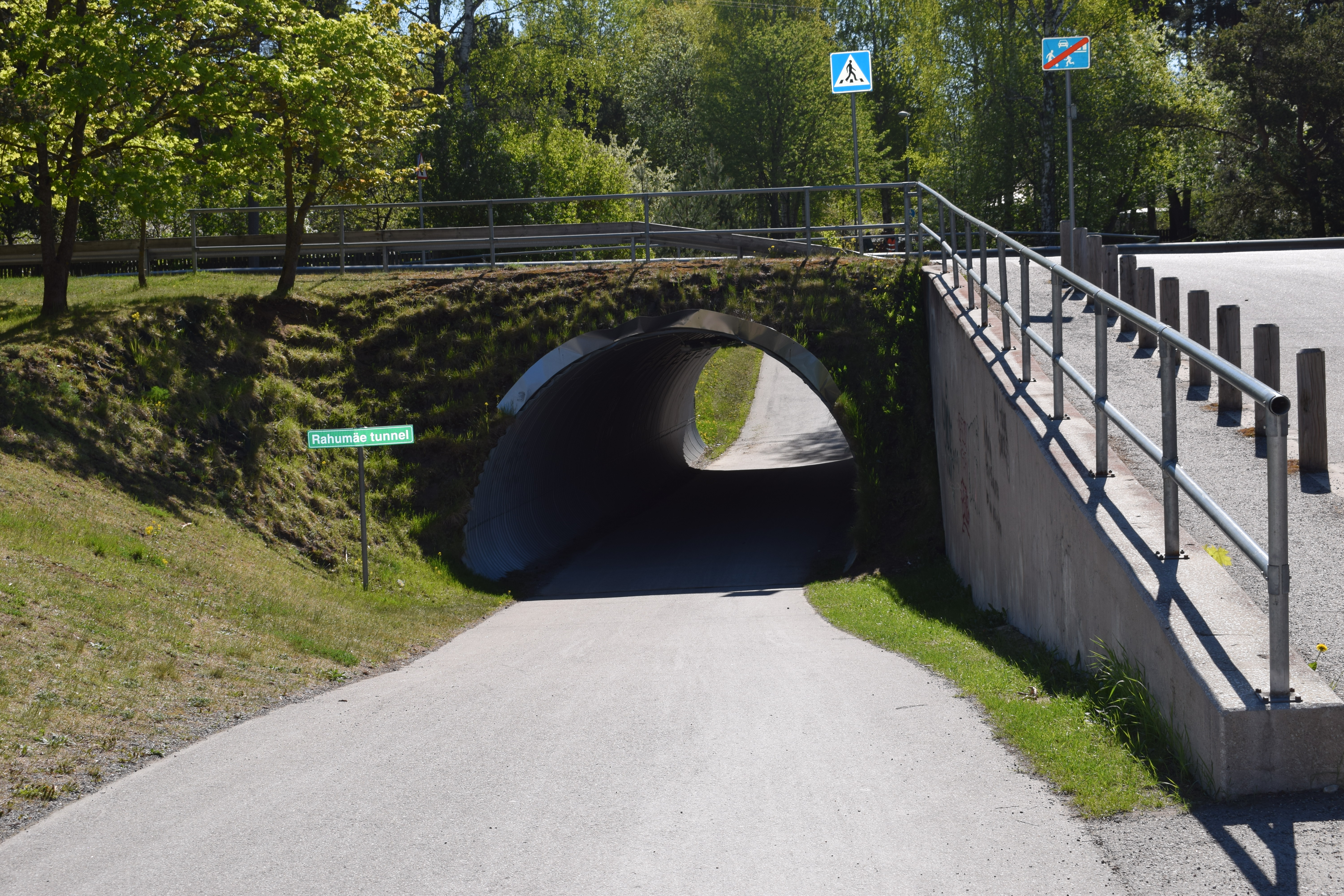 Tallinn